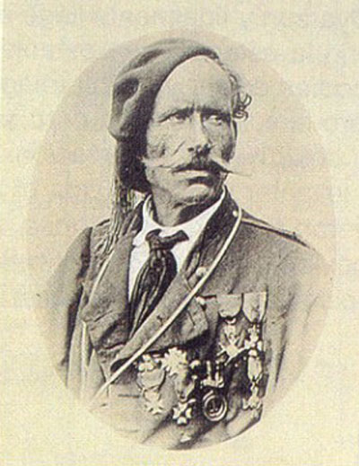 Mariscal Francesc Savalls i Massot